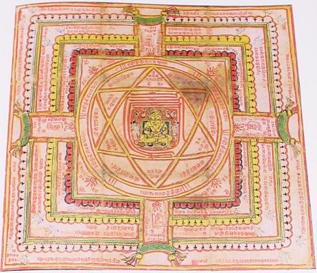 Diagram showing the two mystic syllables Om and Hrim, accompanied by formulae of homage to the Tirthamkaras. [Gouache on cloth, XVth century, Gujarat]